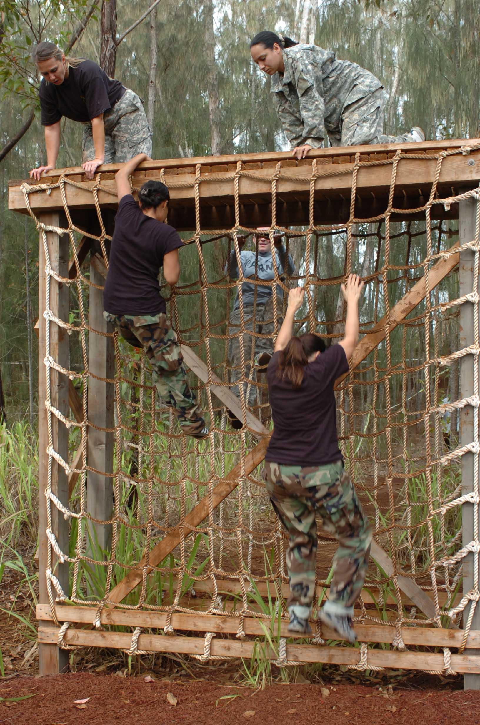 A team of 2nd Squadron, 6th Cavalry Regiment, 25th Combat Aviation Brigade Soldiers’ spouses scale cargo netting at a Schofield Barracks’ obstacle courses during 2-6 Cavalry’s Spouse Spur Ride, Nov. 15.